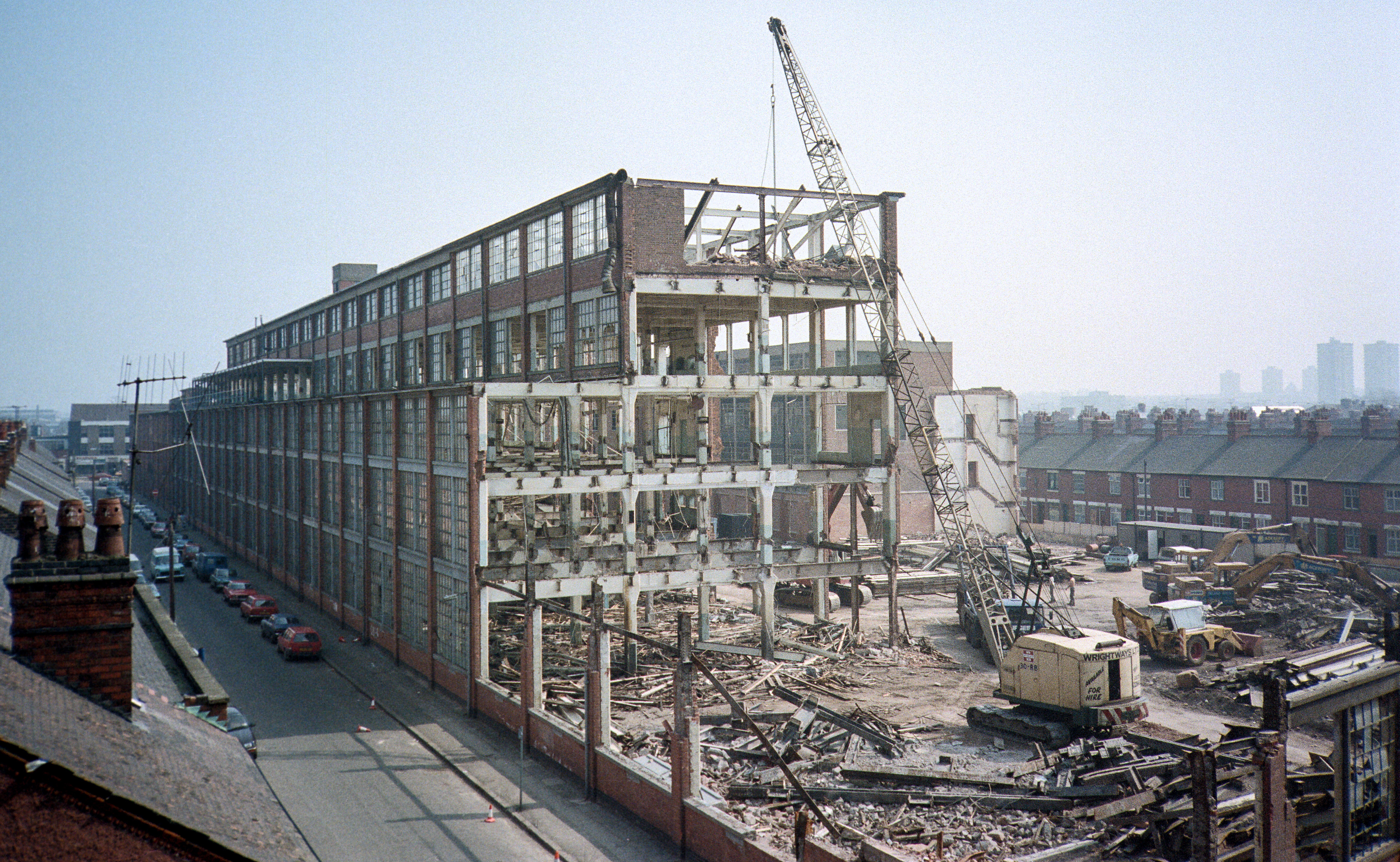 The older of the factory buildings, known as 'Union Works', of British United Shoe Machinery being demolished, 1987. View from the newer factory building on Ross Walk to which all manufacturing activities had moved. Belgrave Road with the main entrance is at the end of Law Street on the left. The bridge over Ross Walk between the factory buildings would have been in the foreground at right.